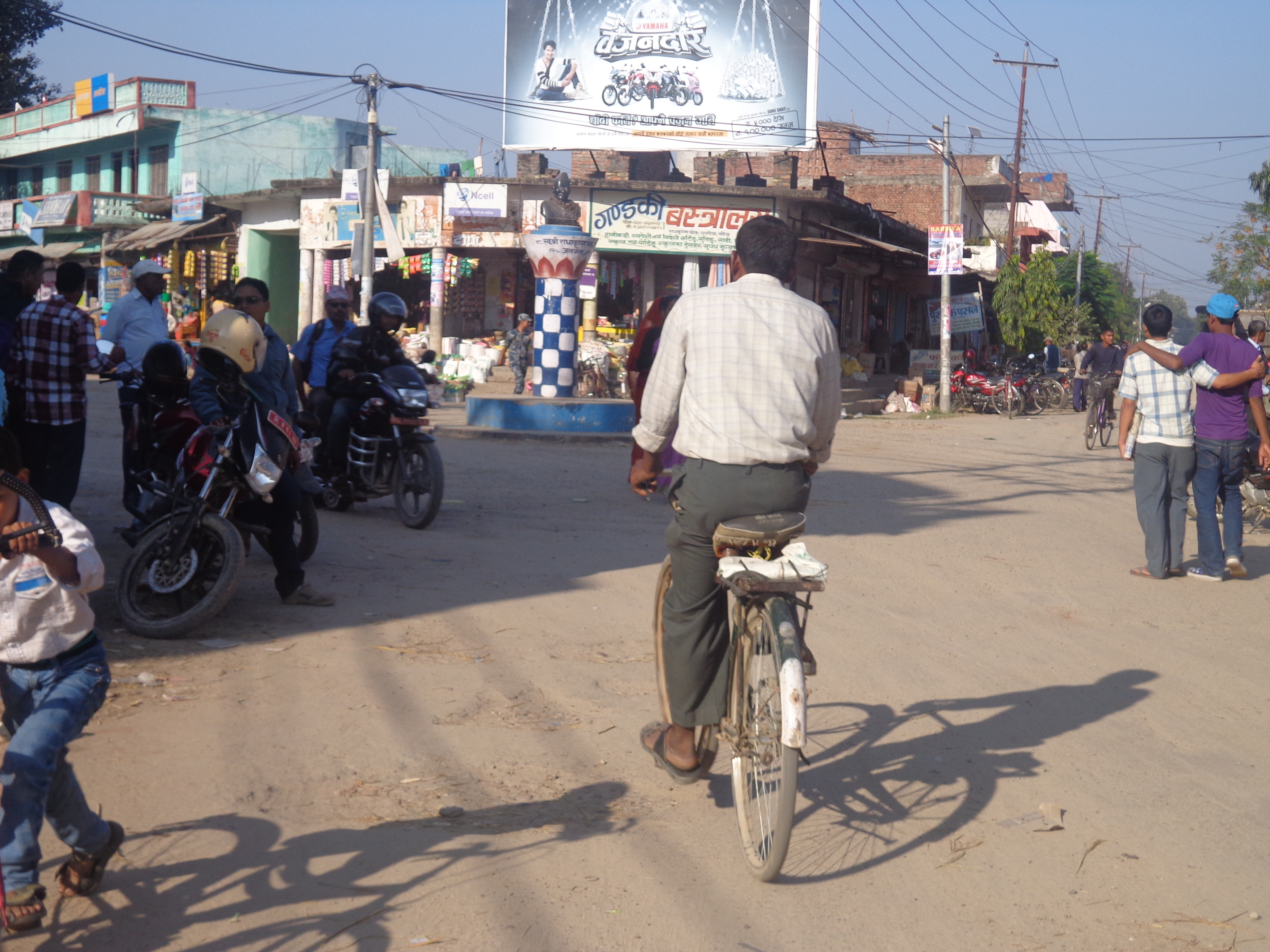 Market area in Radha Krishna Chowk Gulariya